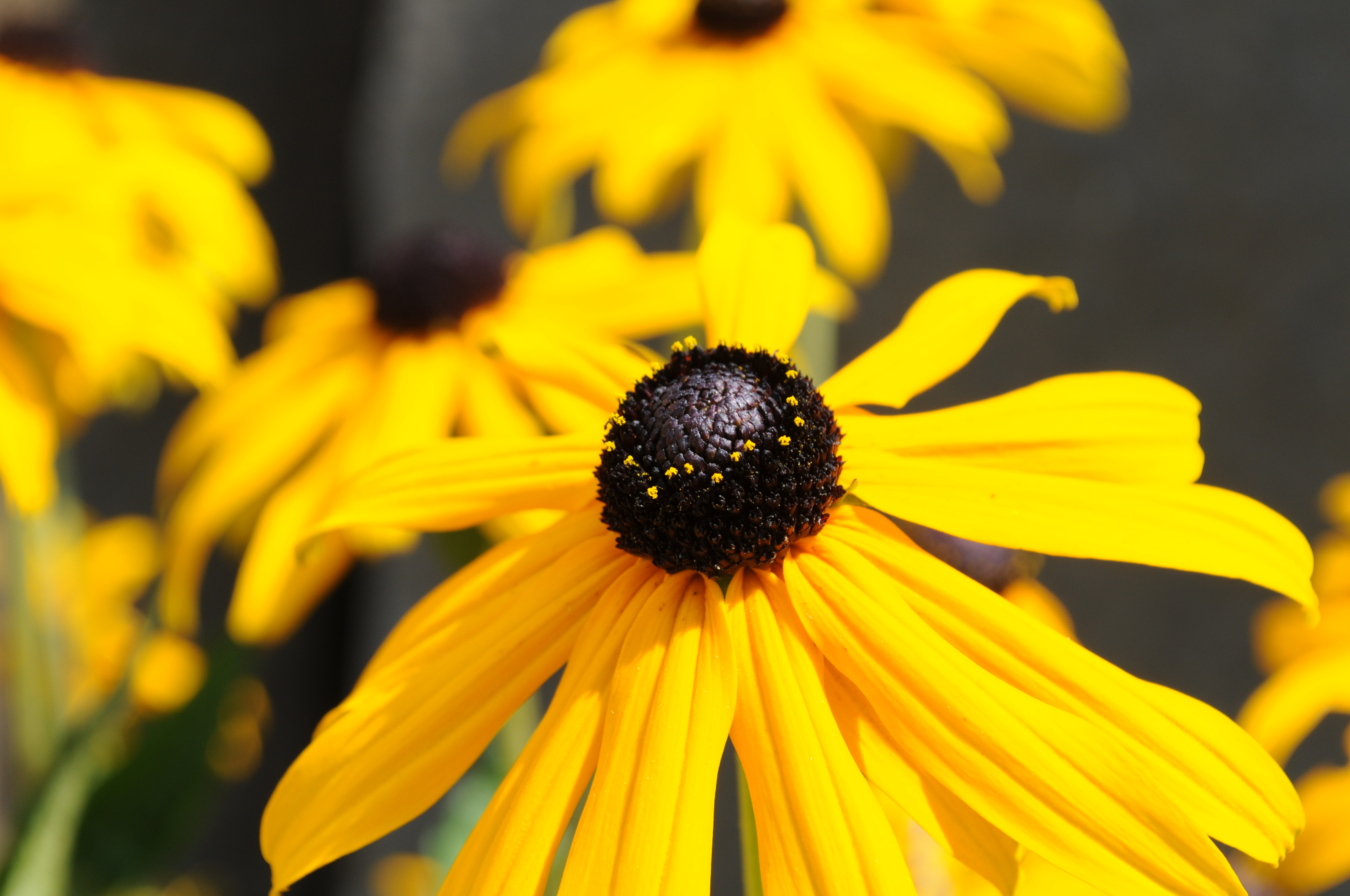 Closeup on a yellow Rudbeckia hirta flower located in front of Building 99 at Microsoft's Redmond, Washington campus.